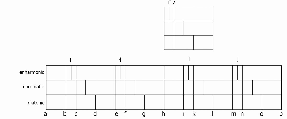 The letters used by William of Volpiano, referred to the Boethian diagramme (used in some chant manuscripts in Normandy and Burgundy). They were used during his reforms of certain abbeys as an additional pitch notation together with adiastematic neumes.